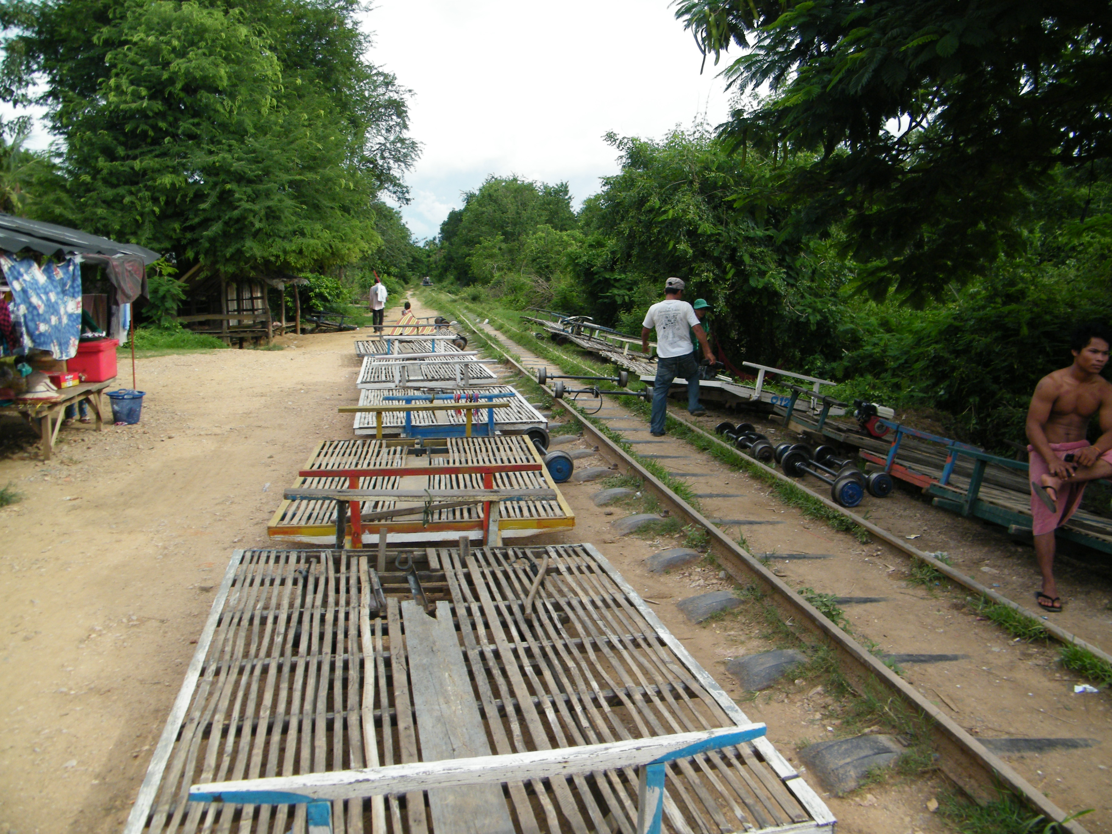 Norry station near Battambang photographed in 2012